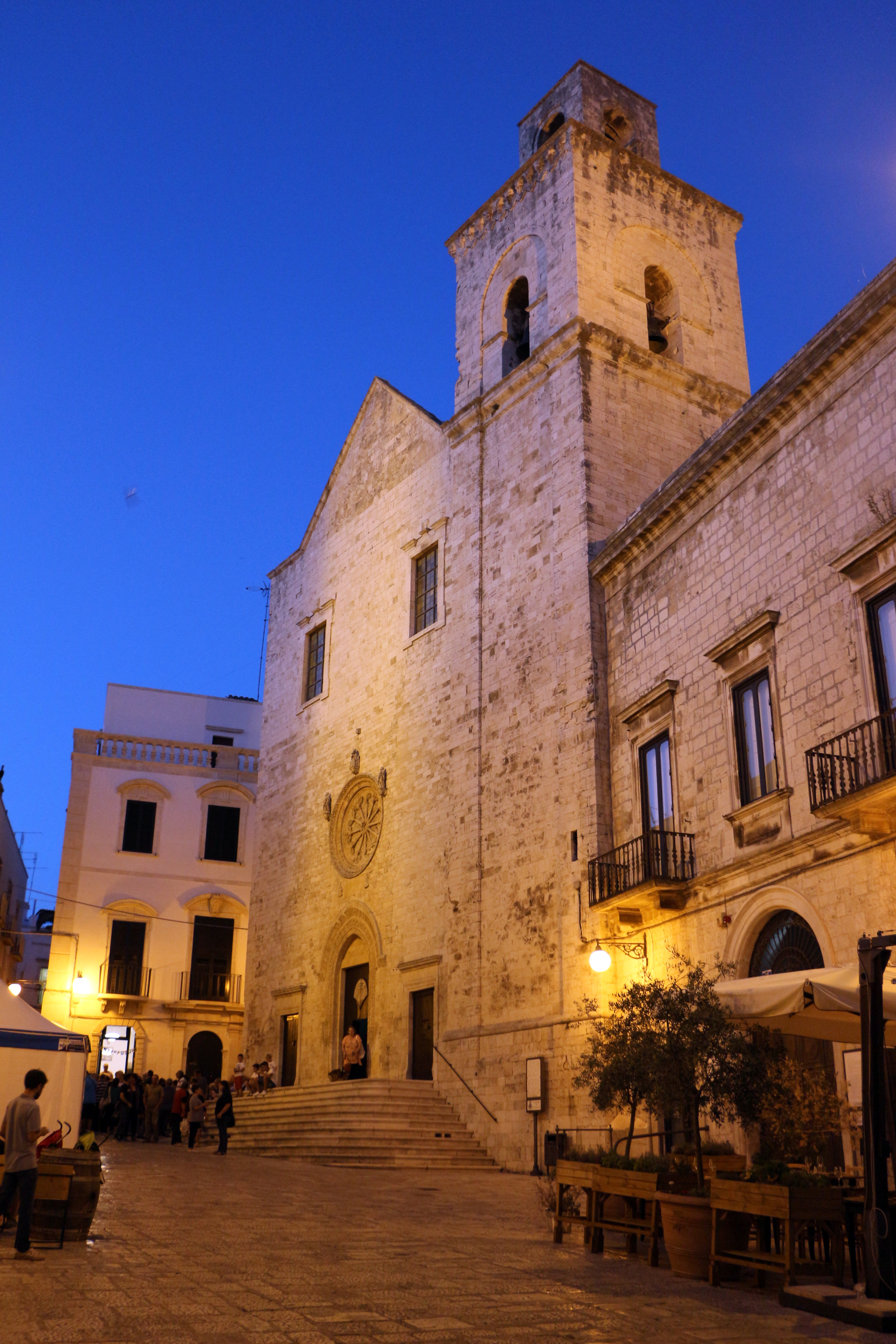 Putignano